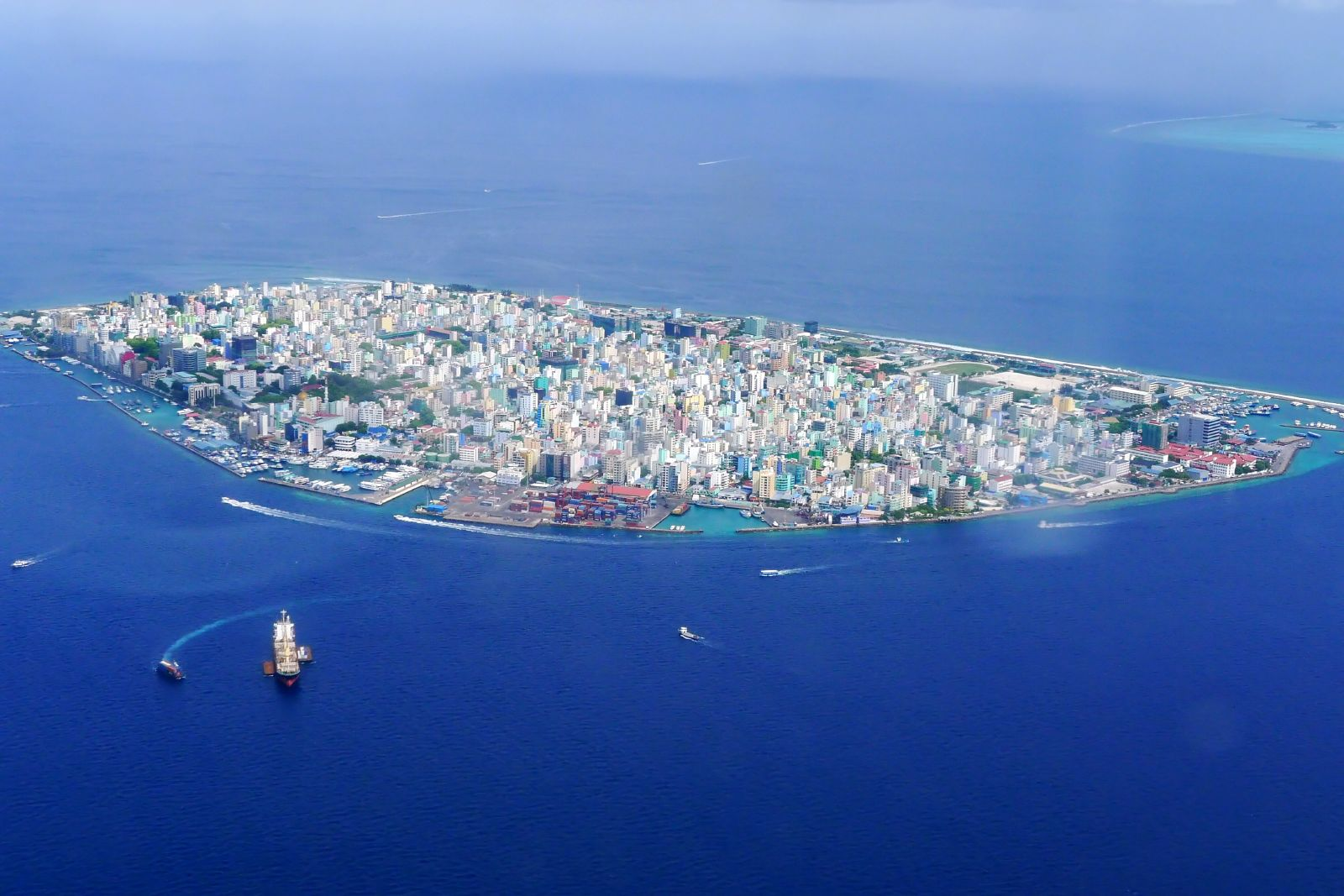 Malé, Maldives from the air.